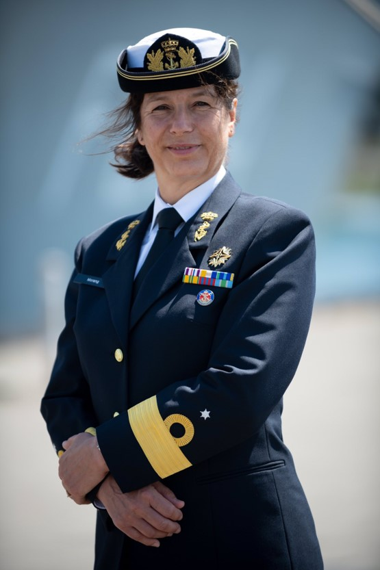 Cdr Jeanette Morang, Royal Netherlands Navy in 2019